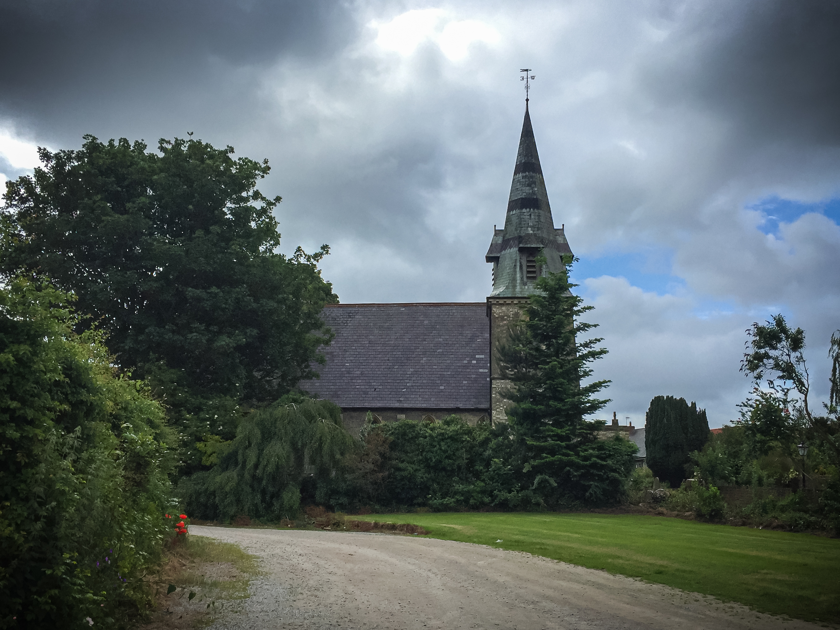 Holy Trinity parish church, Stockton-on-the-Forest, North Yorkshire, seen from the north